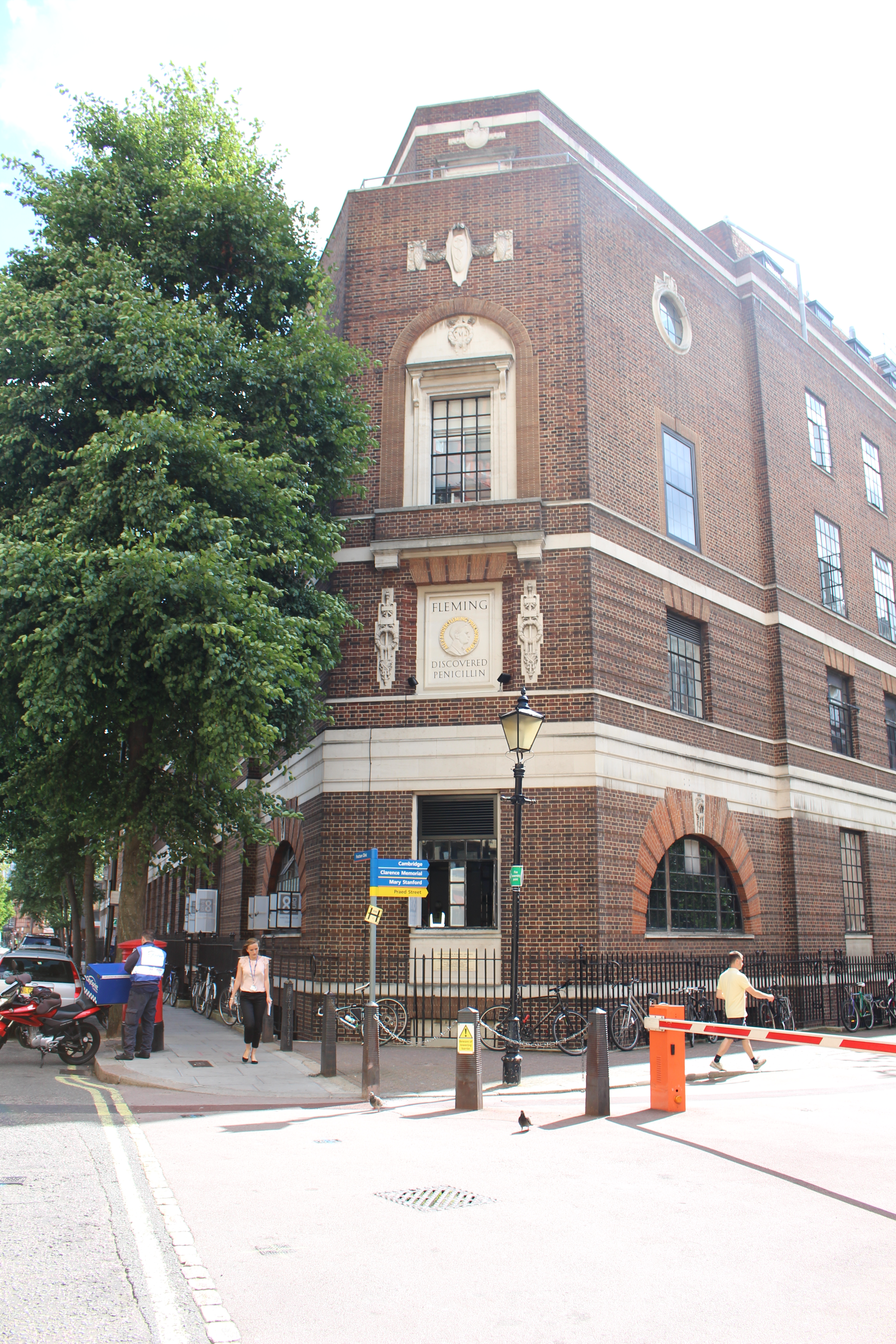 Flemming's laboratory